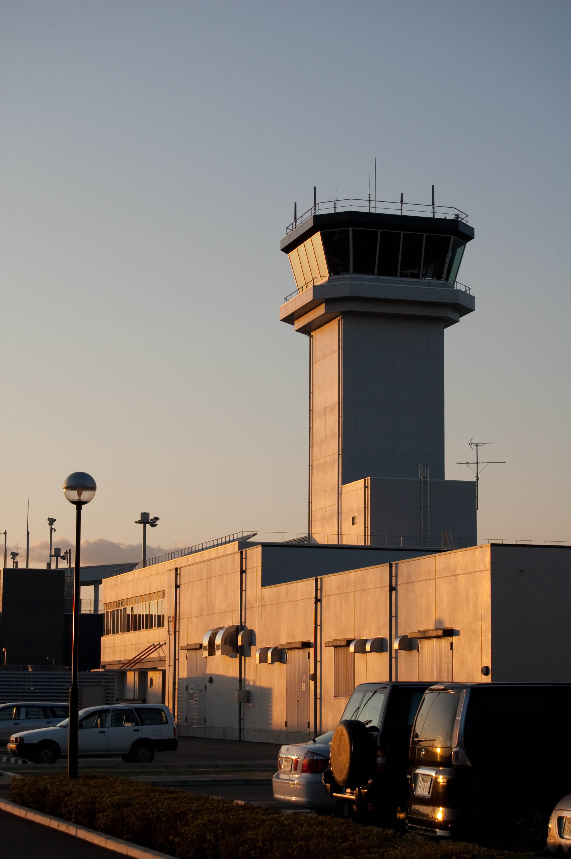 Control Tower, Shizuoka Airport Shimada City and Makinohara City, Shizuoka Prefecture